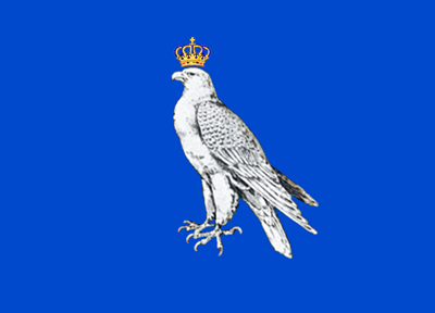 The Royal flag of Iceland from 1918 until 1944. Crowned Gyrfalcon on a blue field.